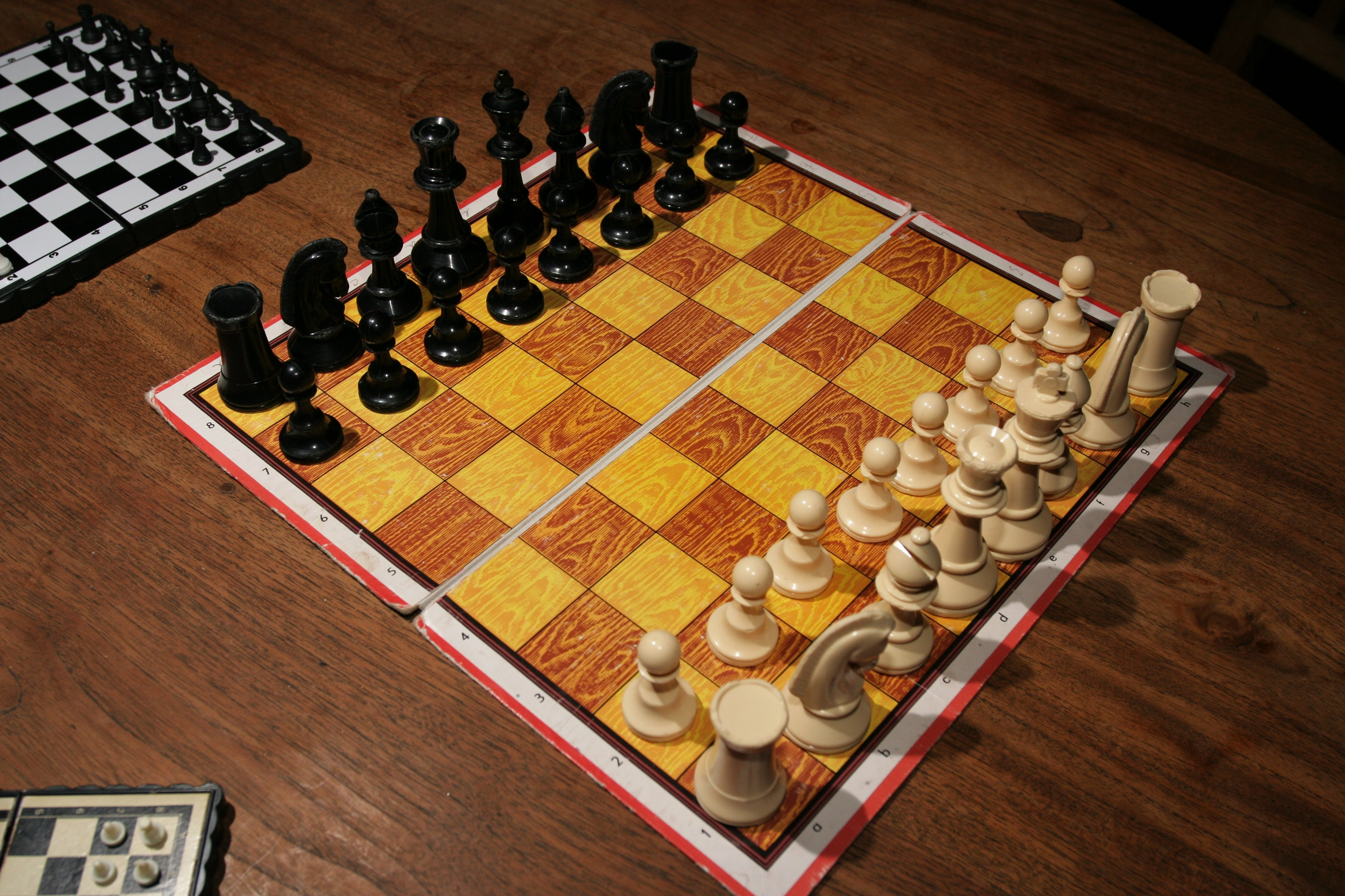 Chess board 0991